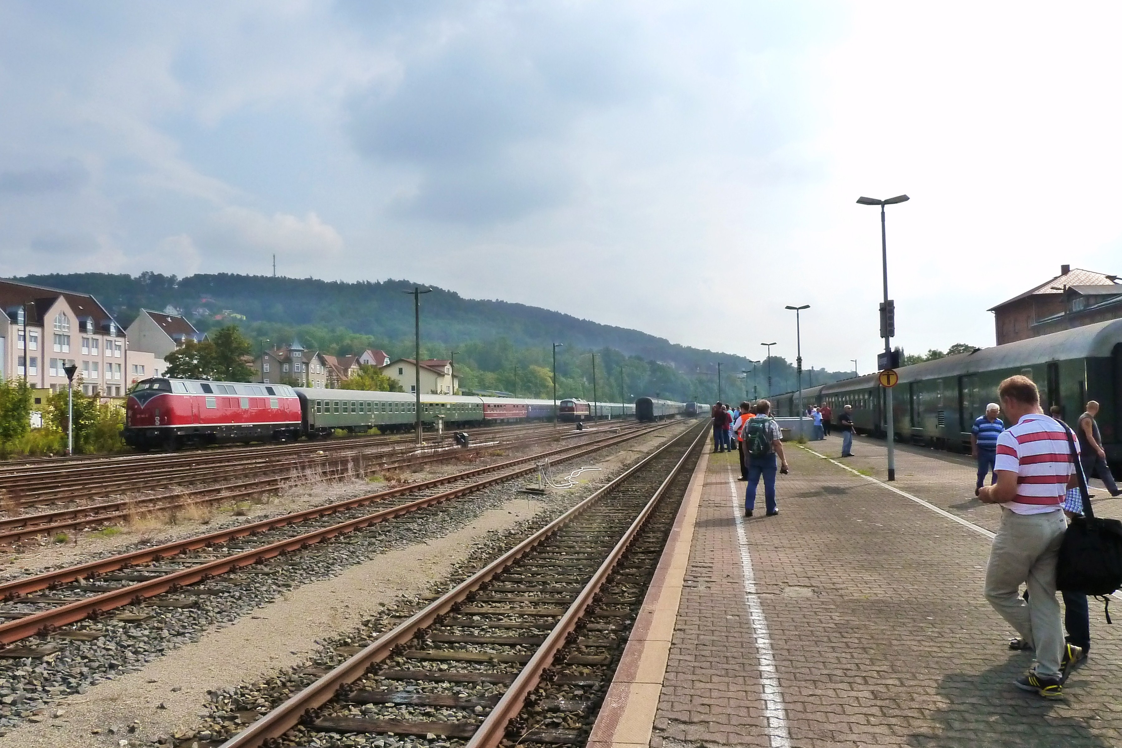 Steam festival in Meiningen, Germany